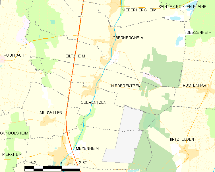 Map of French municipality